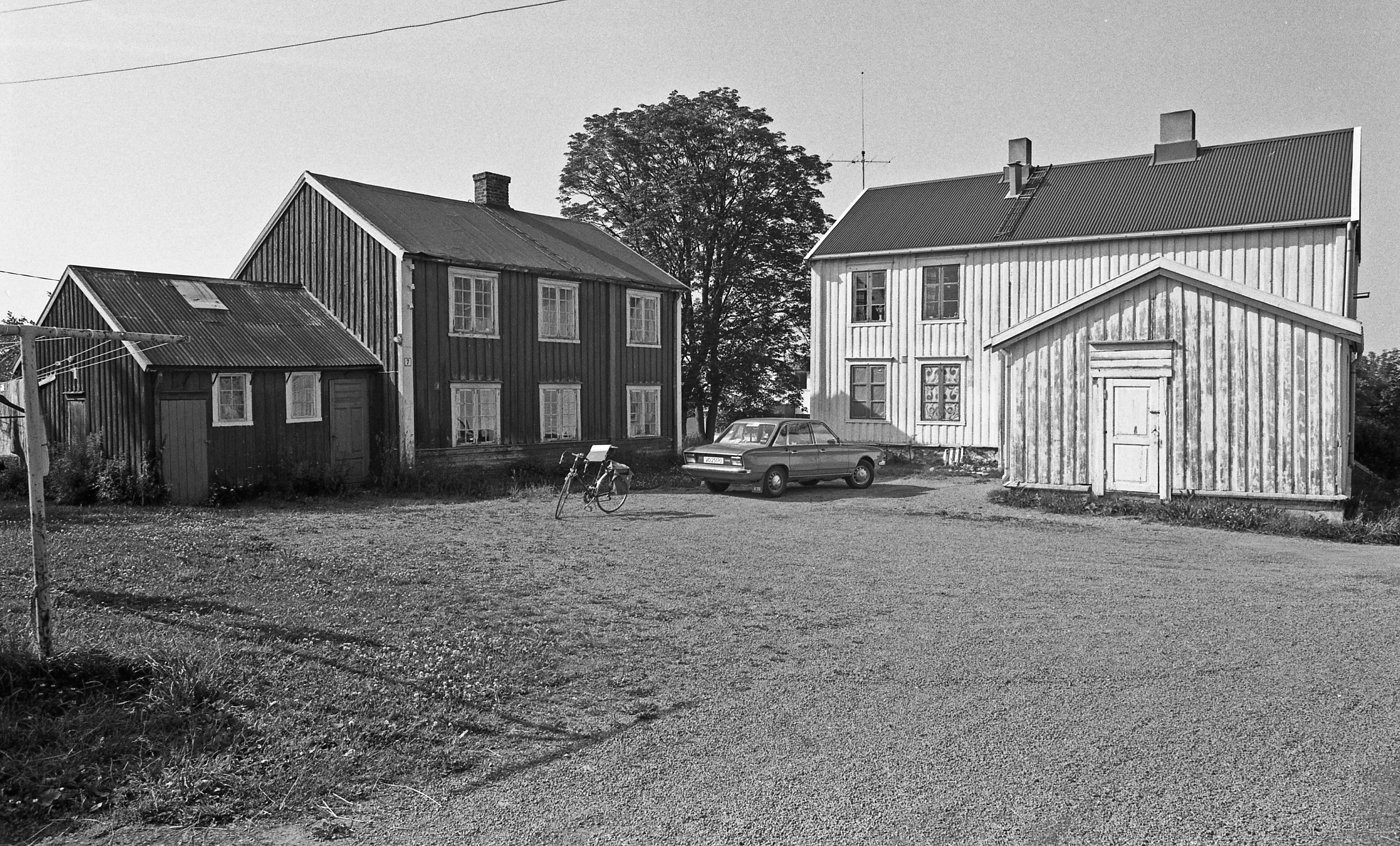 Format: 35 mm svart/hvitt negativ Film: Agfapan 100 Dato / Date: Juli 1982 Fotograf / Photographer: Morten Kerr, Byantikvaren Sted / Place: Gildheimvegen 7, Trondheim Eier / Owner Institution: Trondheim byarkiv, The Municipal Archives of Trondheim Arkivreferanse / Archive reference: Tor.H43.P03.F12680, film 228